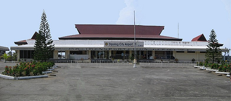 Dipolog Airport Terminal Building. (c)ARIEL NUNAG